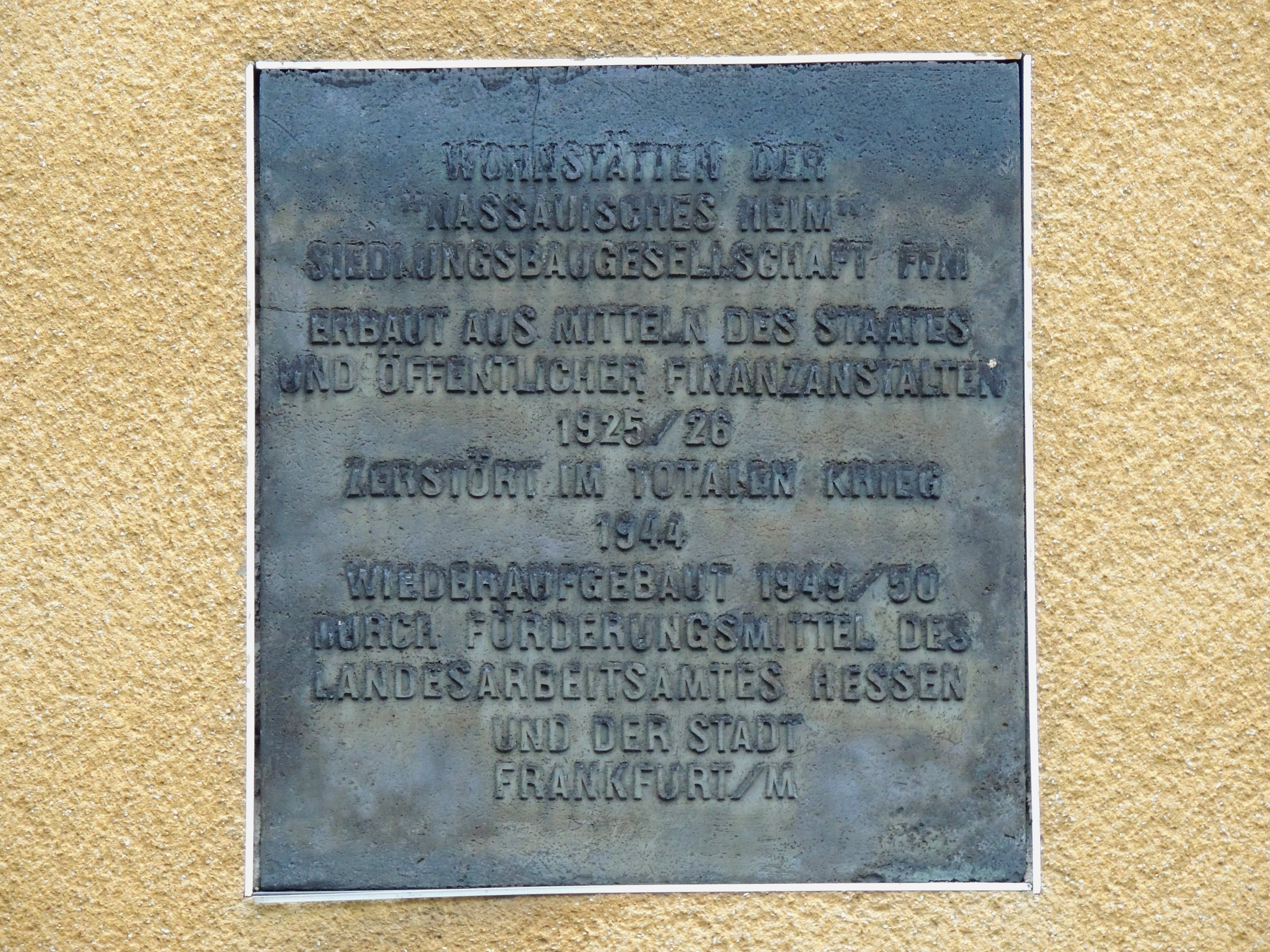 memorial tablet at the house Florstädter Straße 20 in Frankfurt am Main-Bornheim in memoriam on its destruction during the Bombing of Frankfurt am Main in World War II 1944